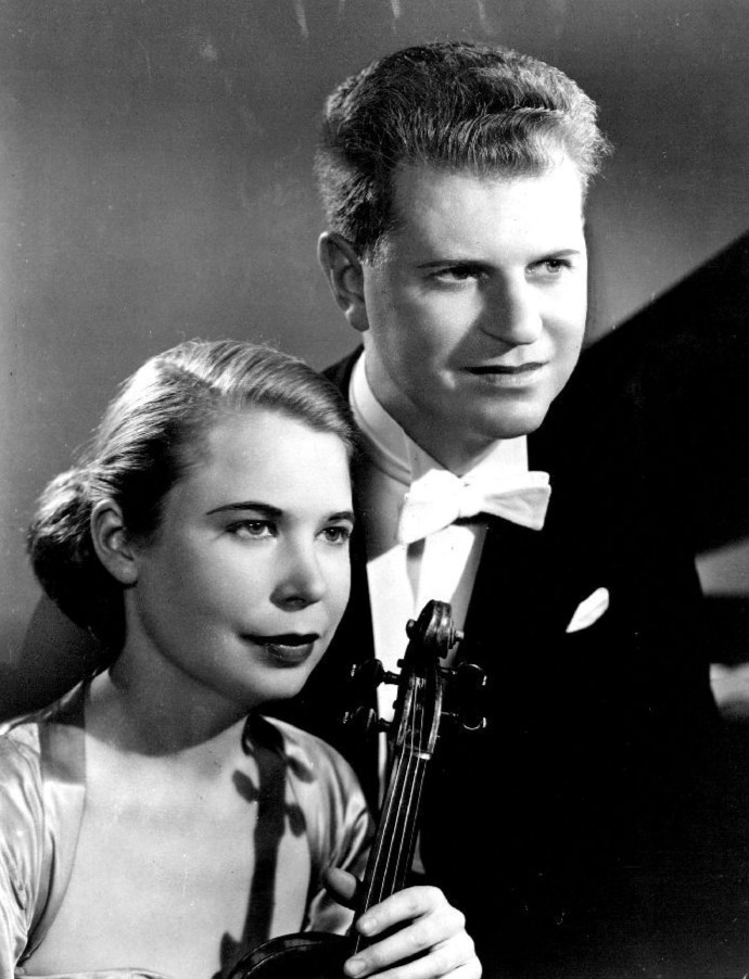 Photo of pianist Eugene List and his wife, violinist Carroll Glenn.